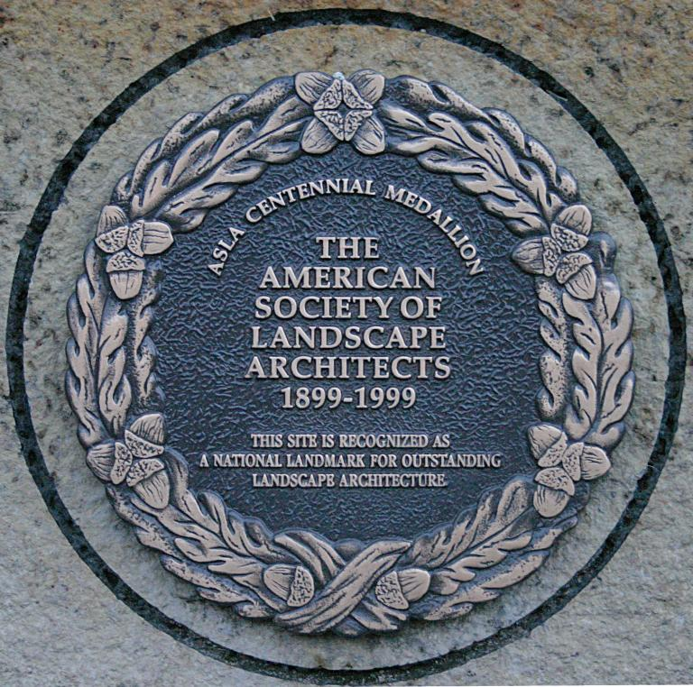 The plaque from the American Society of Landscape Architects recognizing Iowa State University's Central Campus in 1999 as a medallion site. The medallion is located to the west of Curtiss Hall attached to a rock. This picture/image was taken/created by me. See my User:Cburnett page for attribution or for other licenses.